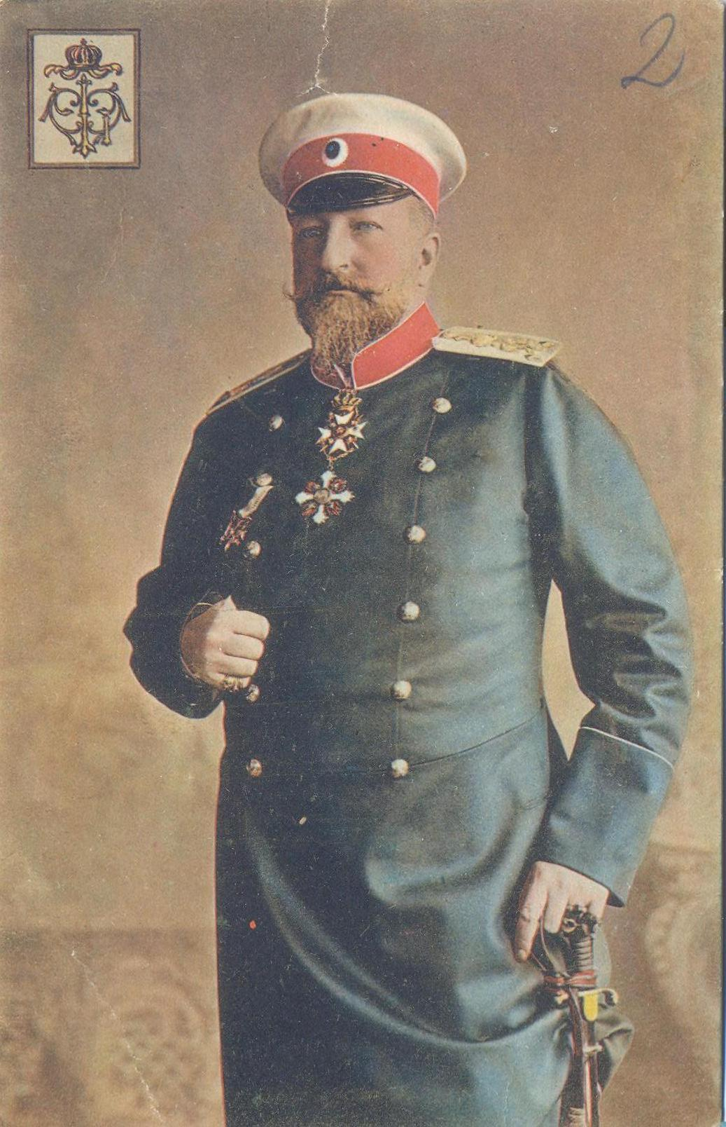 Ferdinand I of Bulgaria.